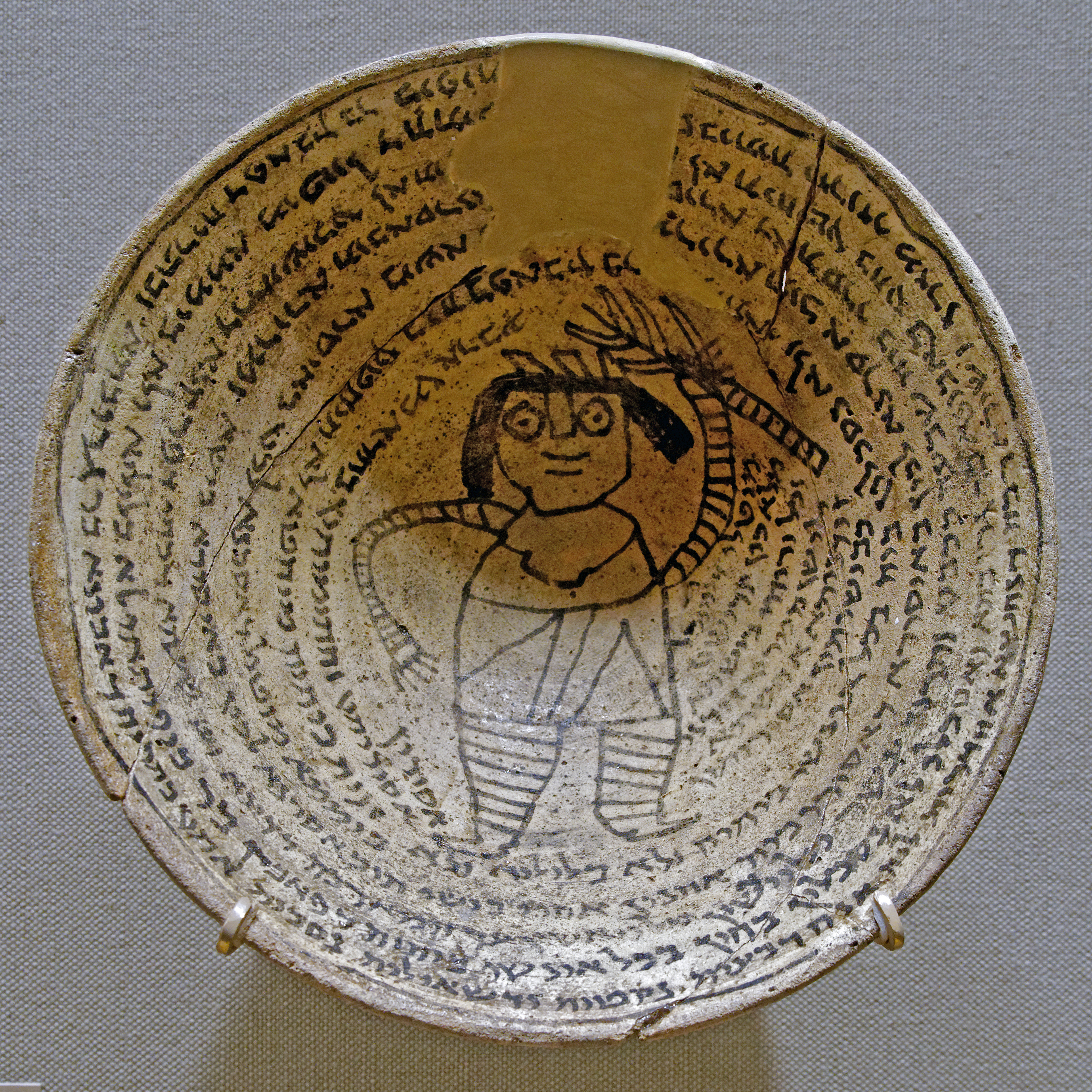 Incantation bowl with an Aramaic inscription around a demon.